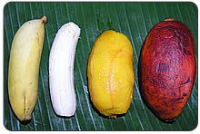 Karat banana comparison to regular eating banana. Karat banana (centre right, and far right) is high in beta-carotene and provitamin A carotenoids. Karat (Musa spp), is a Fe'i banana of the Australimusa series.